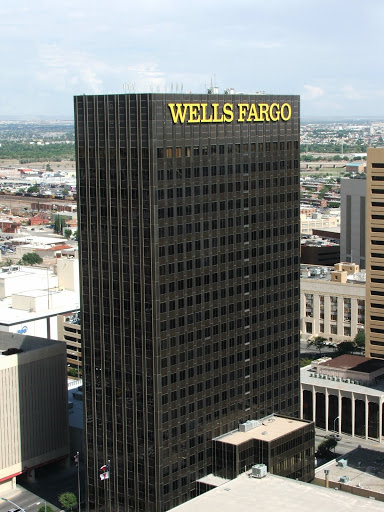 Wells Fargo building1